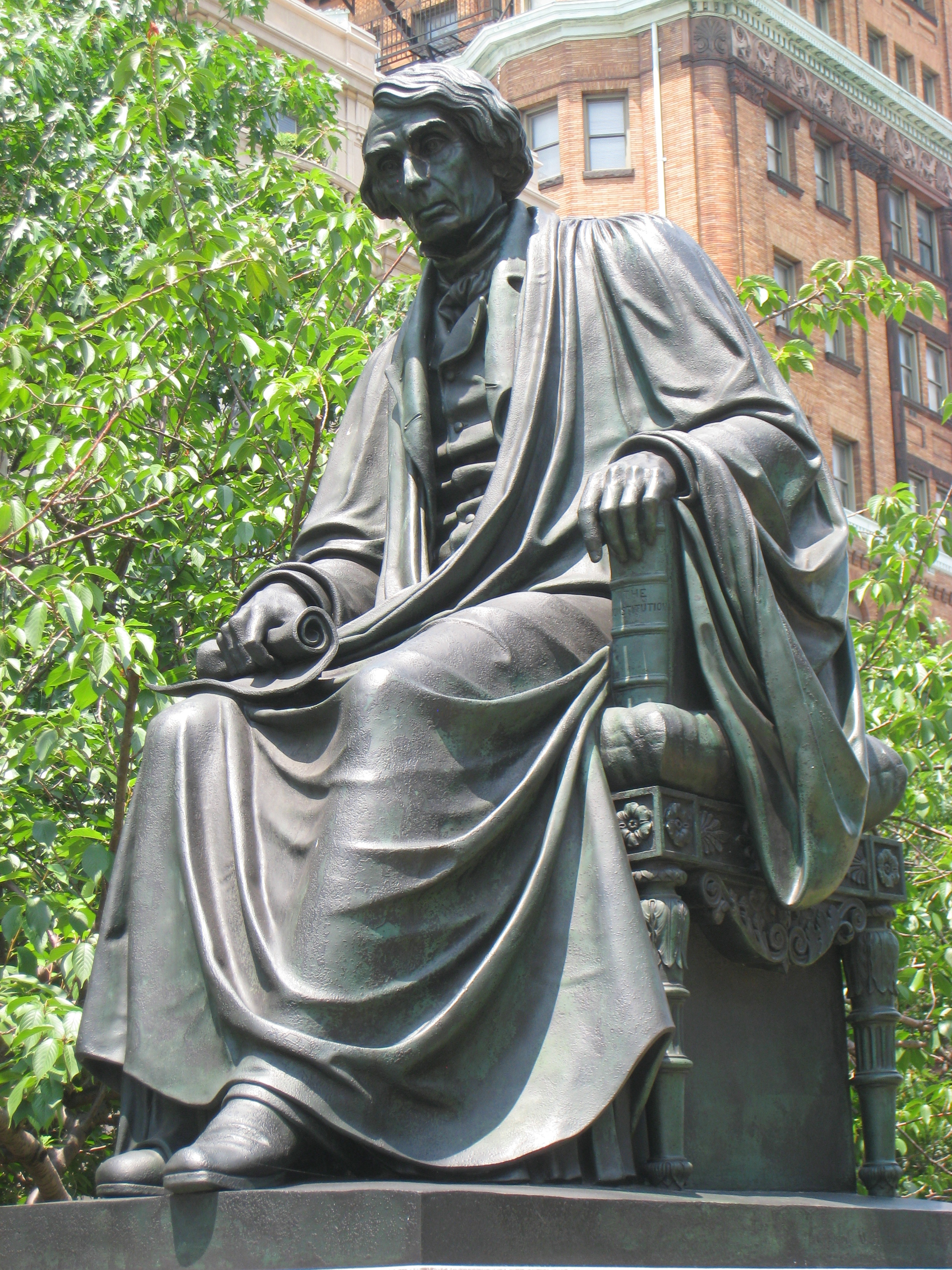 Roger B. Taney statue, Mount Vernon Place, Baltimore, Maryland, USA. Sculptor William Henry Rinehart.